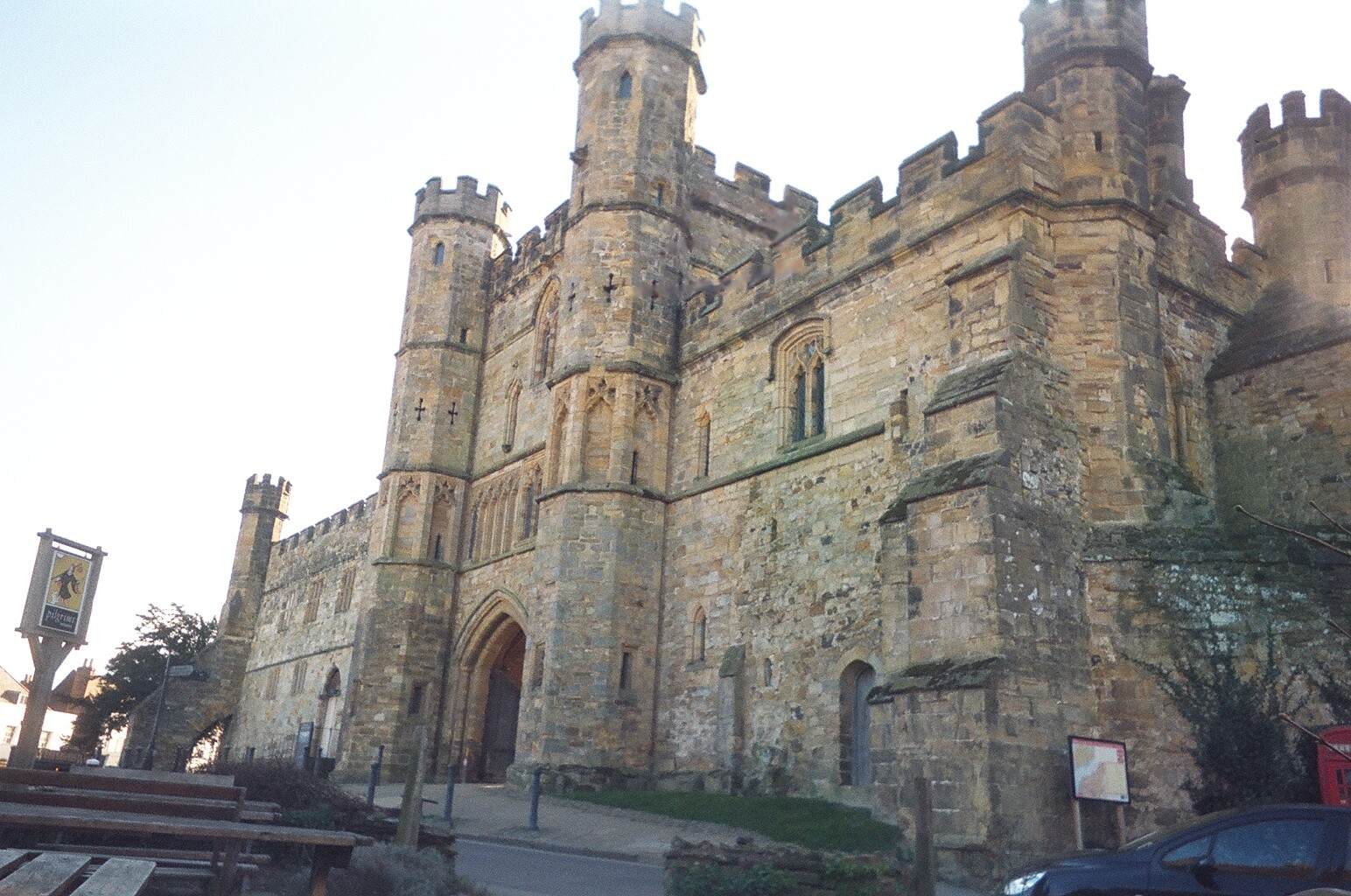 GFDL - Picture taken on March 23, 2005 by myself.